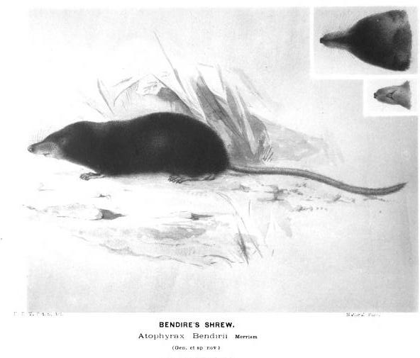 Sorex bendirii, Bendire's Shrew, from Merriam's original paper in 1884